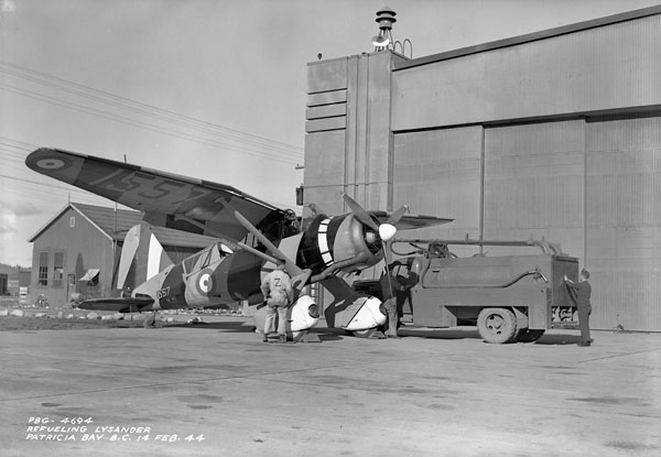 Groundcrew refuelling Westland Lysander IIT target tug aircraft 1557 of No.3 Operational Training Unit (Royal Canadian Airforce Schools and Training Units), Royal Canadian Air Force (R.C.A.F.), Patricia Bay, British Columbia, Canada, 14 February 1944.